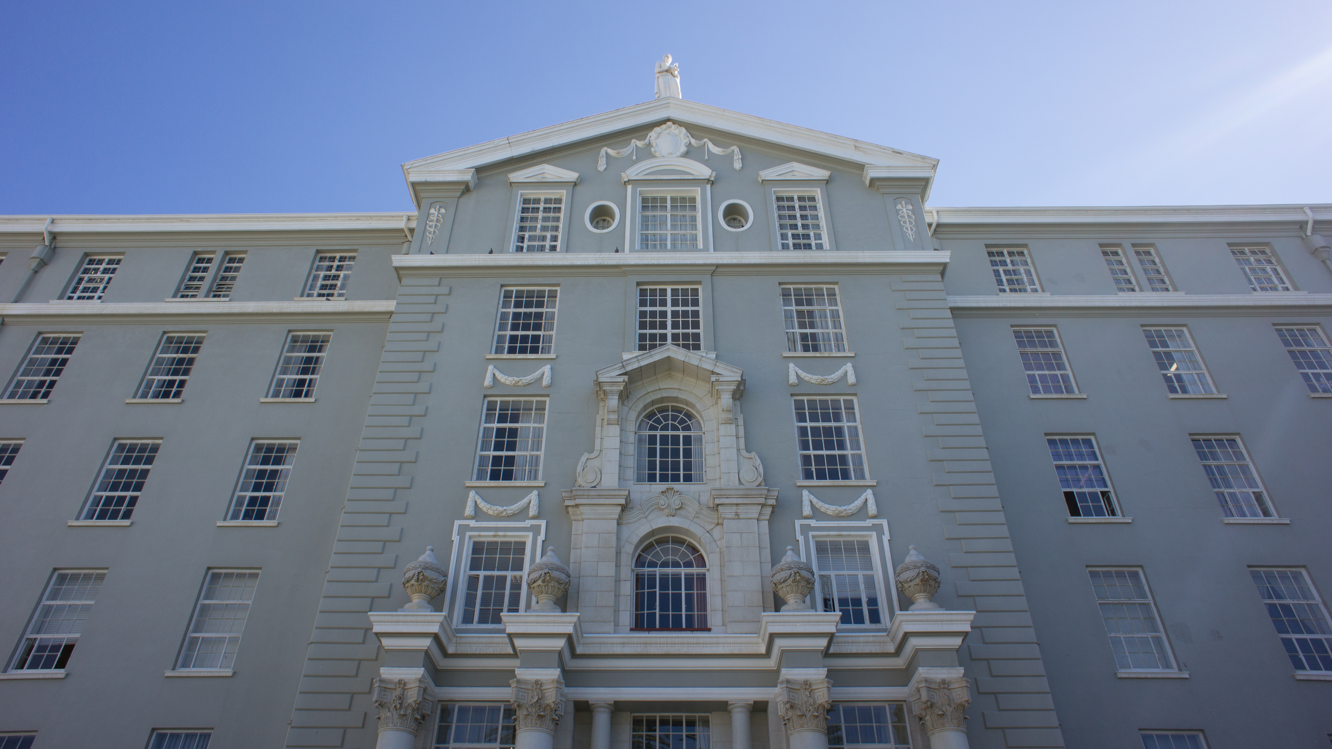 This media shows a South African Protected Site with SAHRA file reference 9/2/018/0153.